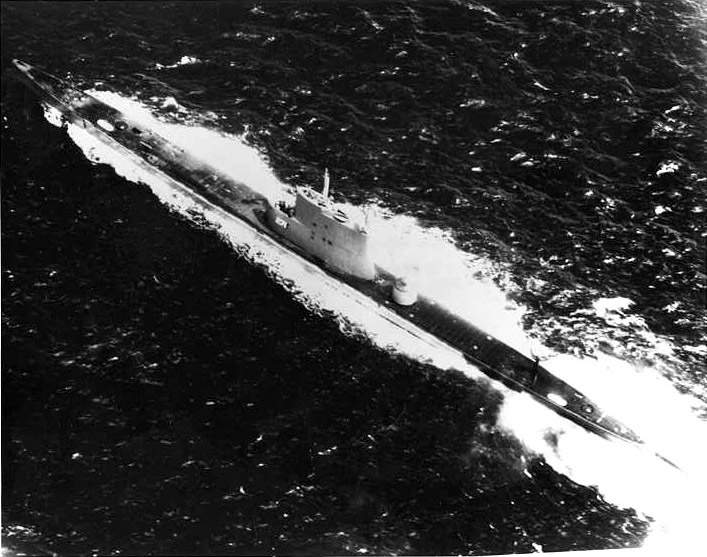 USS_Ray; This photo of the Ray (SS-271) underway, was probably taken shortly after her conversion to a Migraine III radar picket in late 1952. The bridge lacks the "wings" seen in later photos that were added to increase visibility aft while maneuvering alongside the pier. The YE-3 aircraft homing beacon that is installed on a mast on the aft deck was removed not long after she was returned to service in favor of the new TACAN system. A close look at the photo shows what appears to be an attempt at censoring. This would explain the lack of antennae on the BPS-2 on the sail, the BPS-3 on the deck, and the YE-3 at the same time. Text courtesy of David Johnston, (USNR). USN Photo courtesy of .